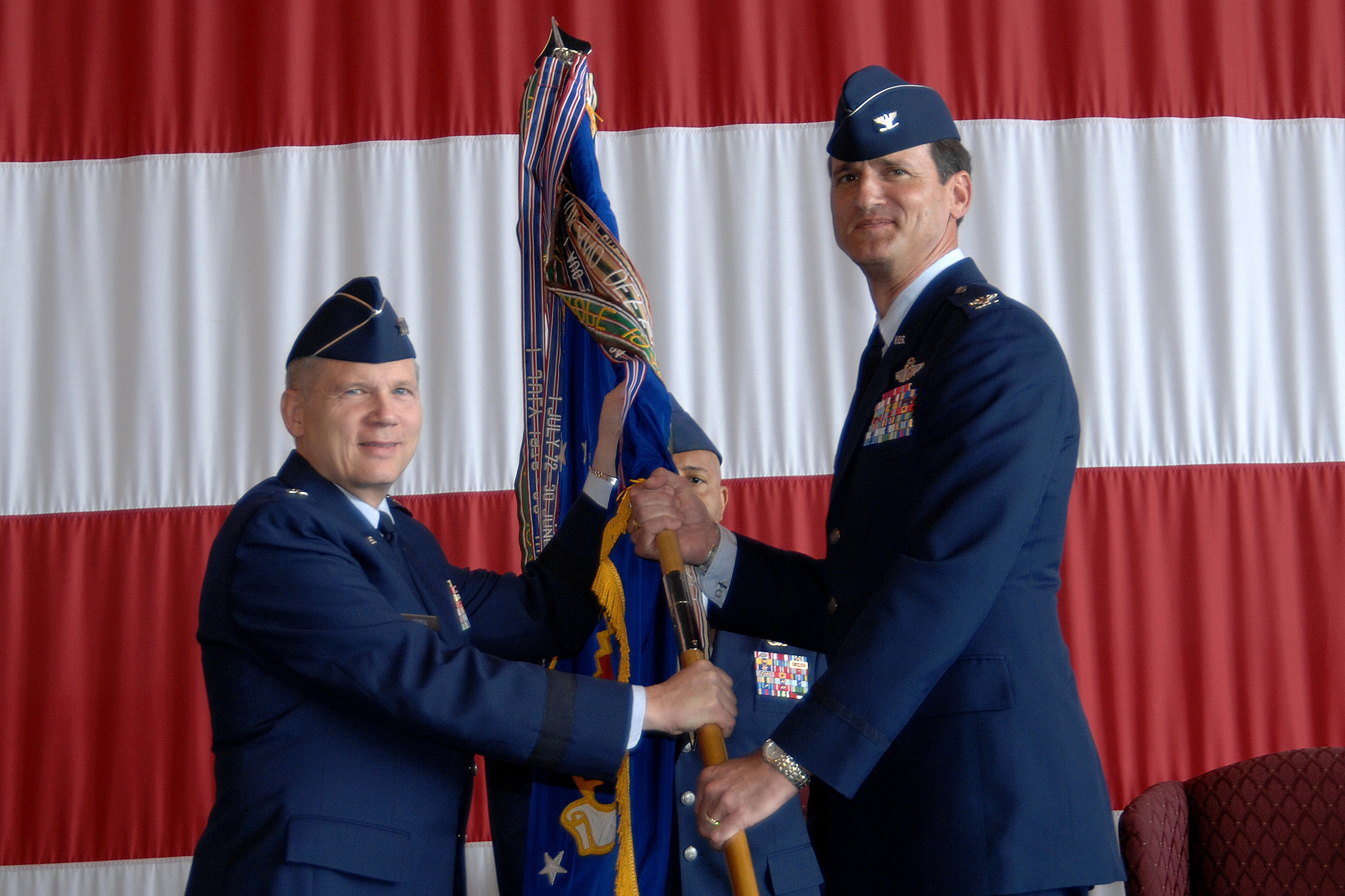 OFFUTT AIR FORCE BASE, Neb. -- The new 55th Wing Commander Colonel Jim Jones (right) accepts the wing’s guidon from Eighth Air Force Commander Lt. Gen. Robert Elder Jr. during a wing change of command ceremony Wednesday at the Bennie Davis Maintenance Facility. Colonel Jones is a command pilot with more than 2,700 flying hours. The colonel’s last assignment was commander of the 116th Air Control Wing at Robins AFB, Ga. As commander of the 116th ACW, Colonel Jones was responsible for the world-wide employment of the E-8C Joint Surveillance Target Attack Radar System aircraft.